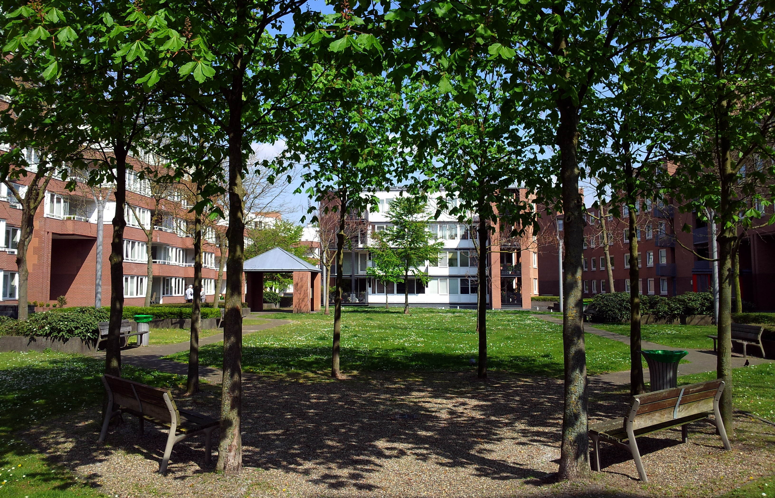 Maastricht, the Netherlands. View of 'Jardin Céramique', designed by MBM Architects (Barcelona), one of the buildings on Avenue Céramique, the main avenue in the newly rebuilt Céramique district in Maastricht.